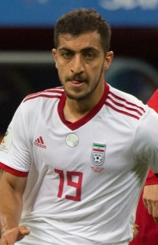 Iran-Portugal match, 2018 FIFA World Cup Group B